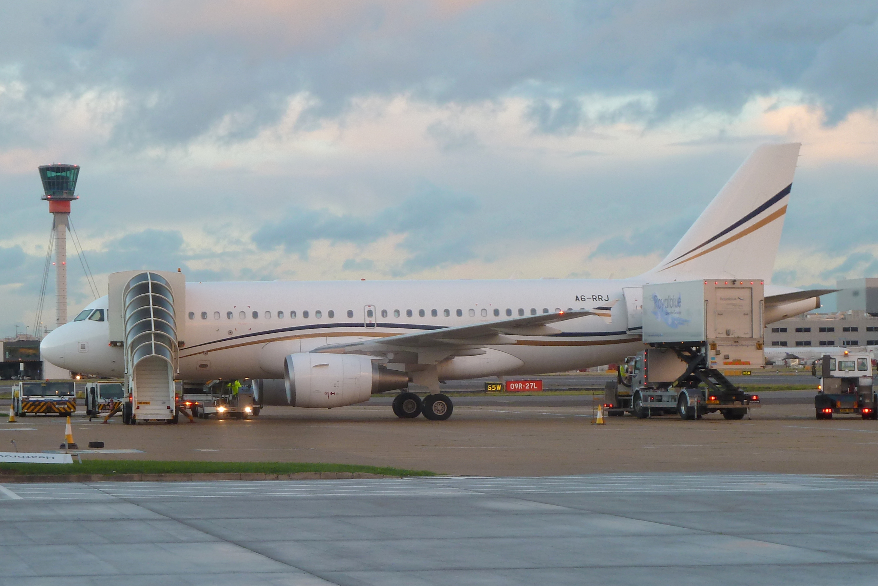 A6-RRJ A319CJ Rotana Jet Aviation on RS1.